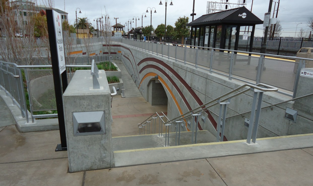 CalTrain station in Santa Clara. The pedestrian tunnel is newly built and near the San Jose airport. The station house was built in 1863